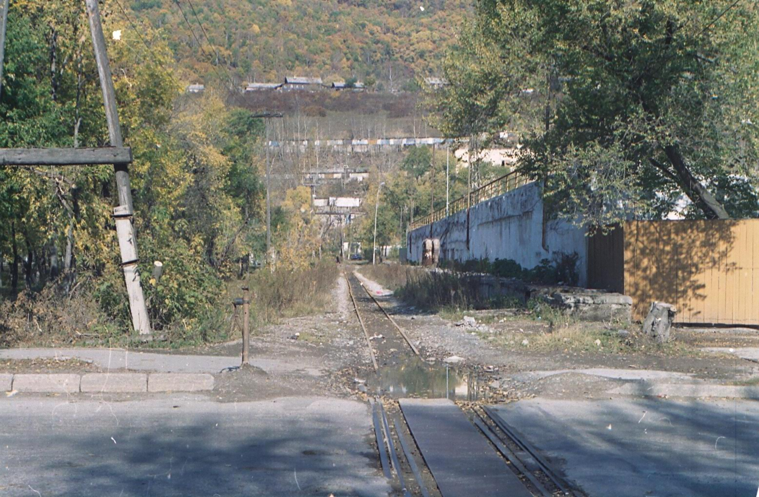 Dalnegorsk